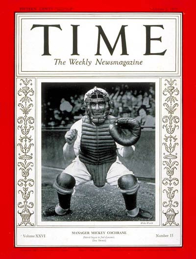 U.S. baseball player Mickey Cochrane, featured on the October 7, 1935, cover of Time magazine (Vol. XXVI, nr. 15).